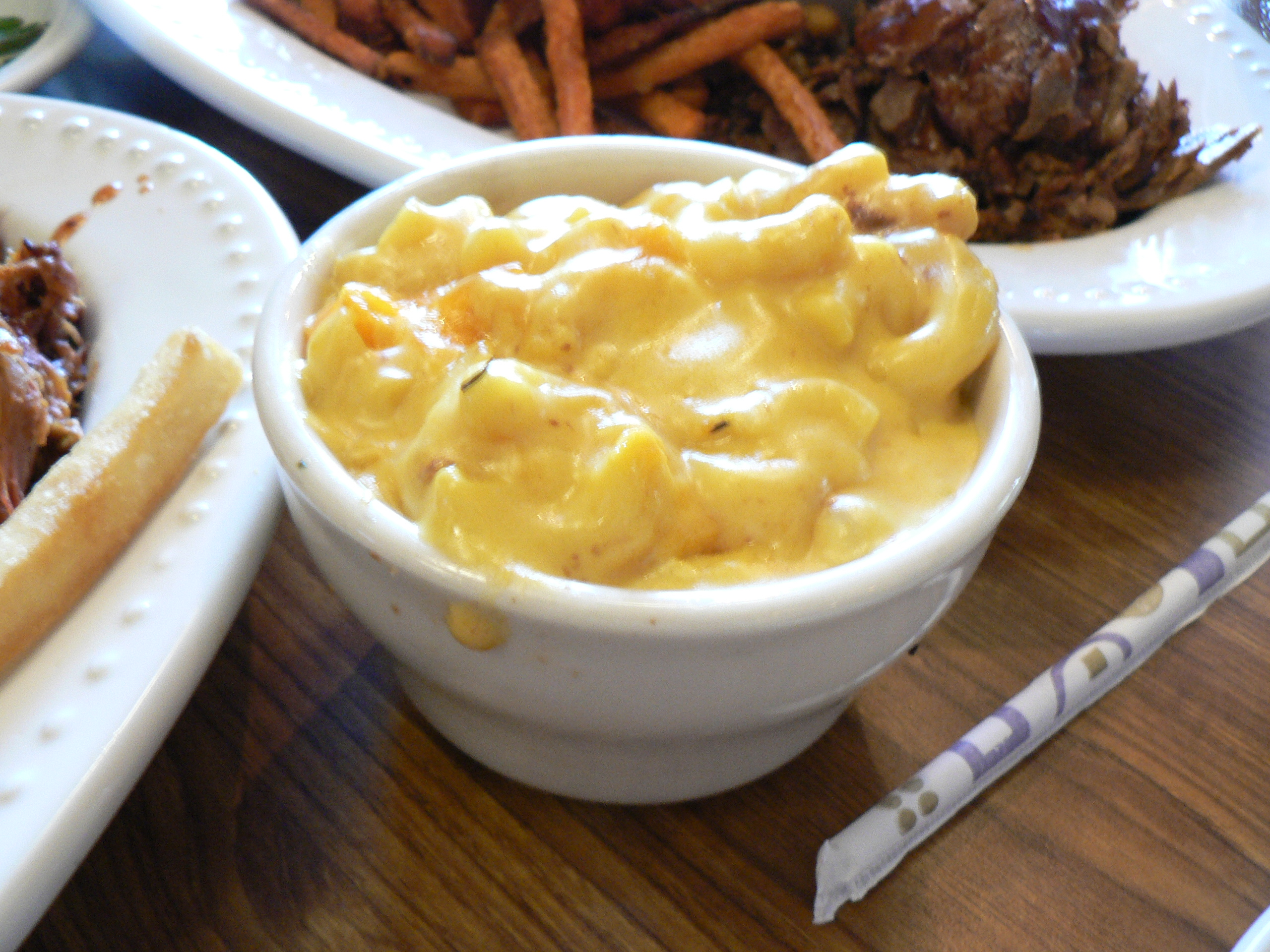 Macaroni and cheese in a white bowl.